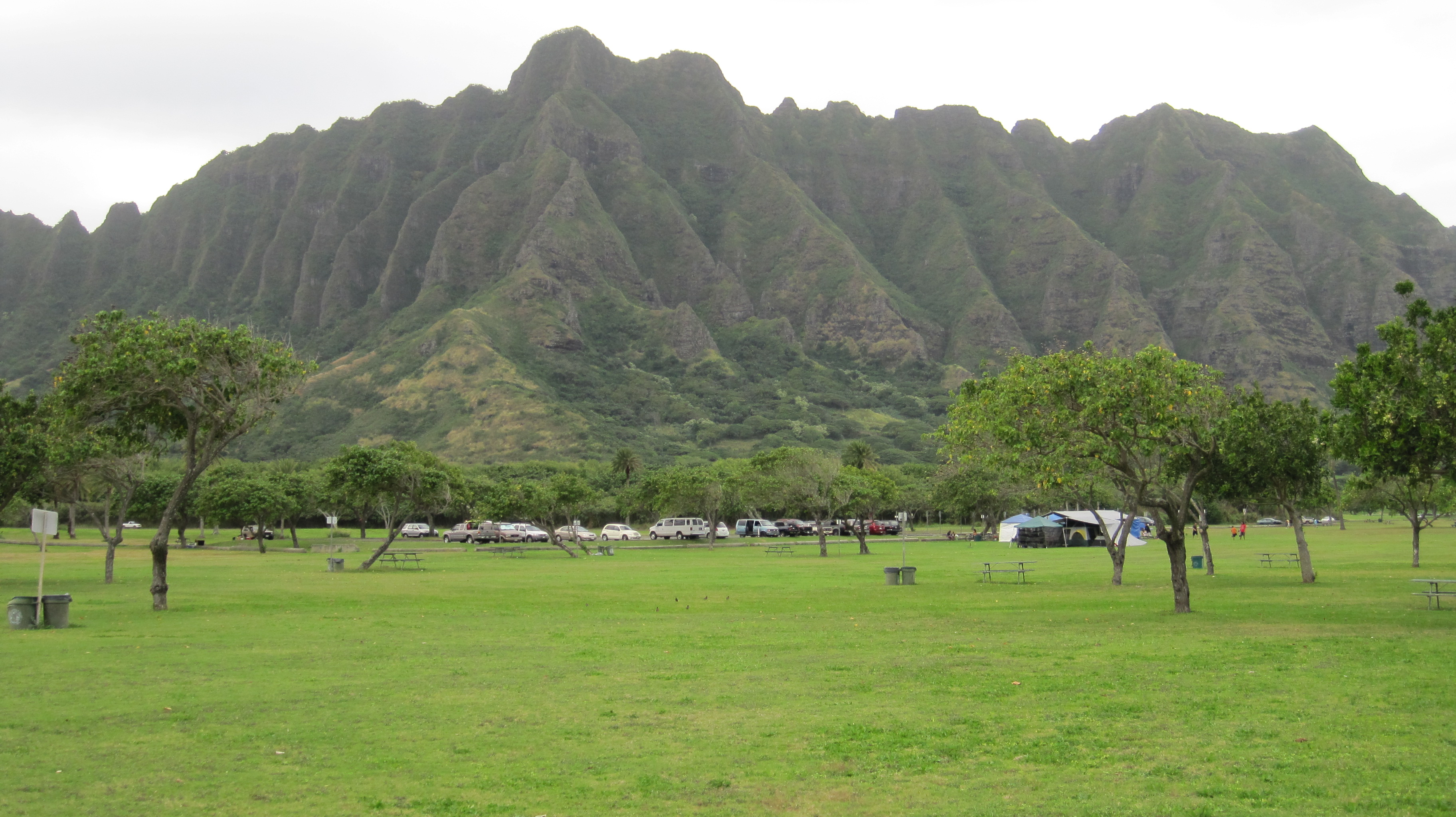 Mountain ridge above Kualoa Regional Park, Oahu. In the Kualoa Ahupua'a Historic District, and on National Register of Historic Places.